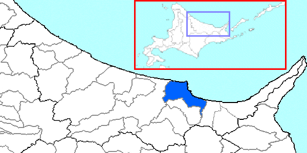 The location of Abashiri in Abashiri Subprefecture, Hokkaido Prefecture, Japan.